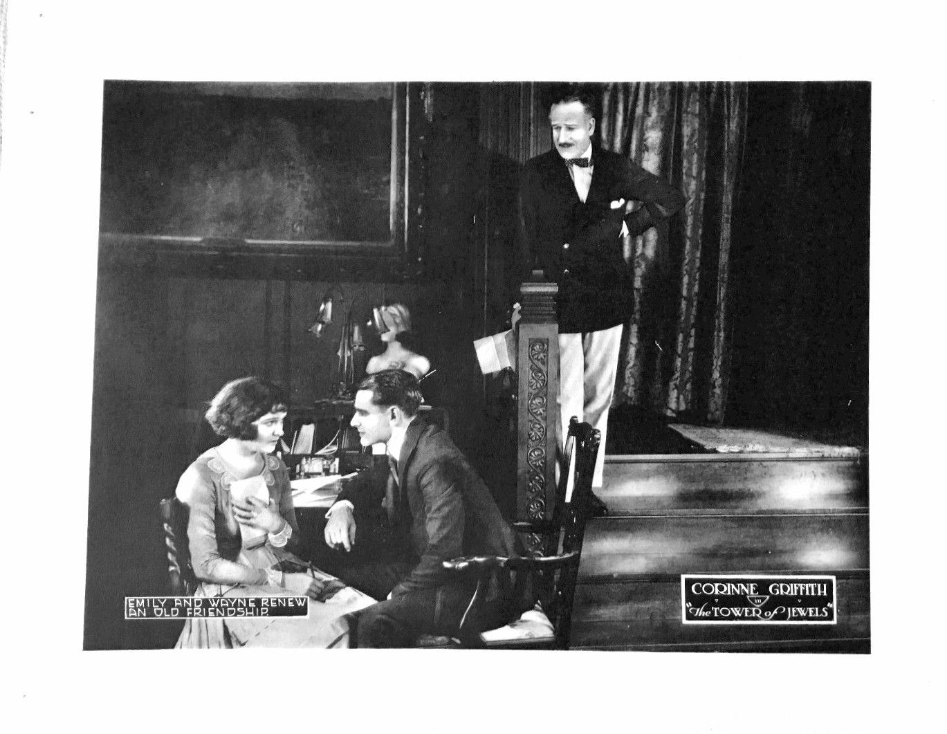 Lobby card for the American crime drama film The Tower of Jewels (1919).